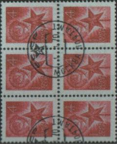 The Soviet Union 1969 CPA 3825 stamp (Kremlin Red Star and USSR Arms) cancelled block of 6 from 2 rolls